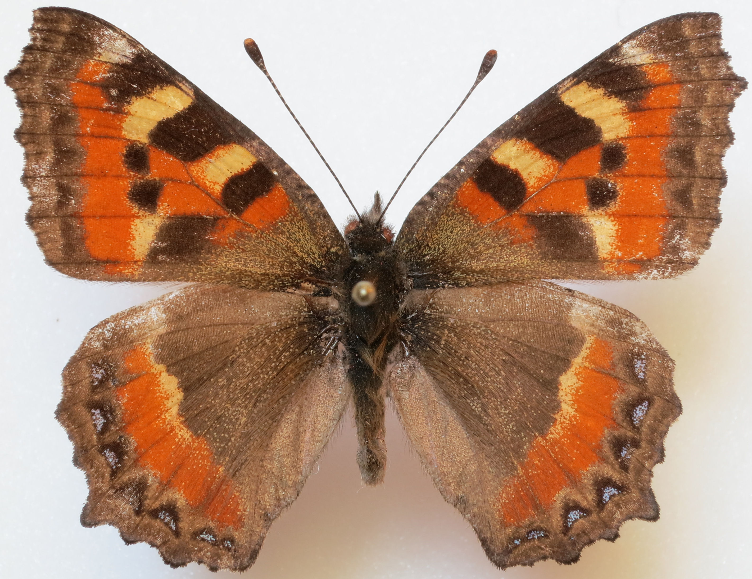 Aglais rizana from Gyshkhun Val. - Vanch Mts - West Pamir - Tadjikistan